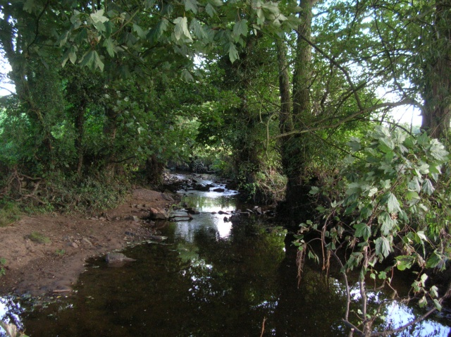 Crimple Beck Taken from a bridleway that used to cross this beck. The bridleway has been extinguished recently by the council after the bridge was damaged in the recent flooding.